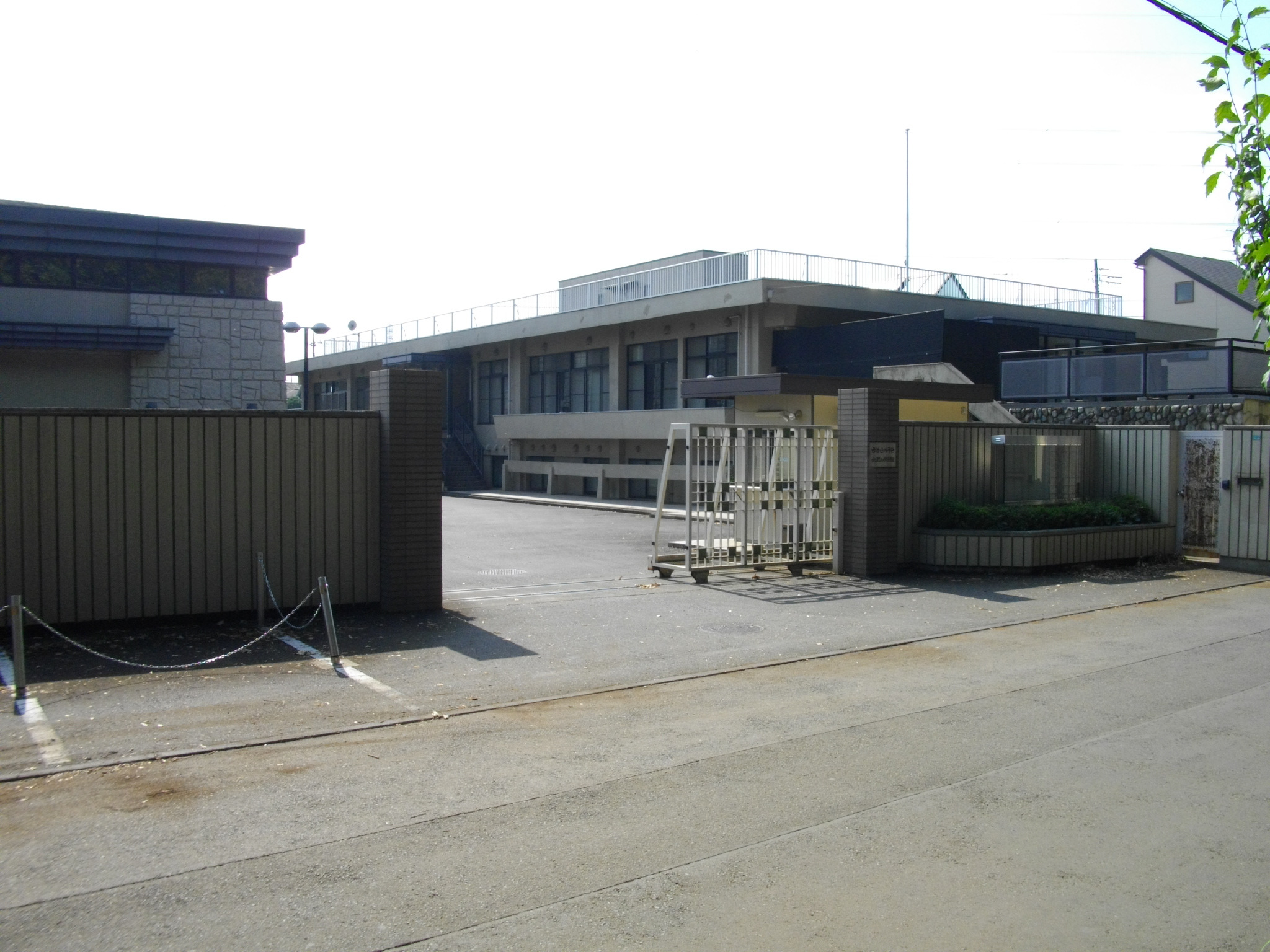 Kumgangsan Opera Troupe Headquaters